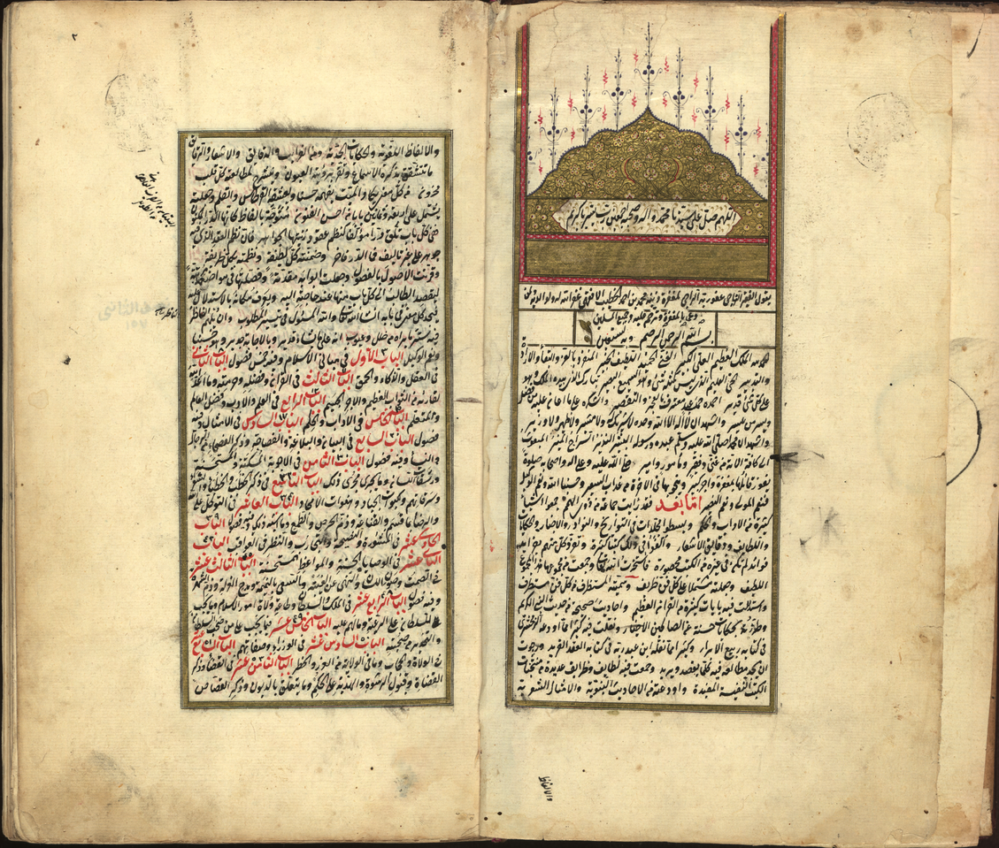 Manuscript - al-Mustaṭraf fī kull fann mustaẓraf (The exquisite in every pleasing art). Qatar National Library